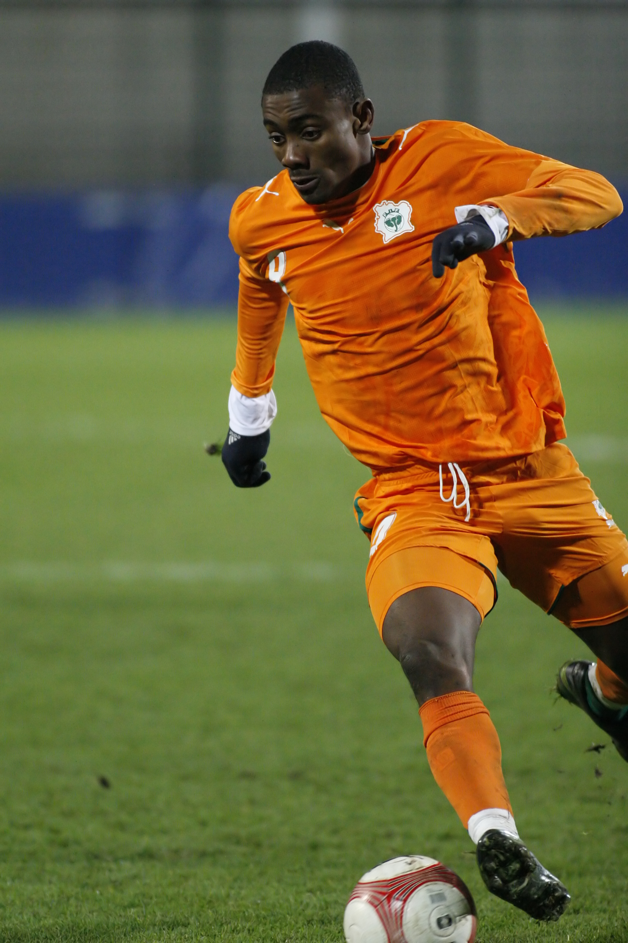 Ivorian player Salomon Kalou during match Guinea vs. Côte d'Ivoire at Stade Robert Diochon, Rouen, France.